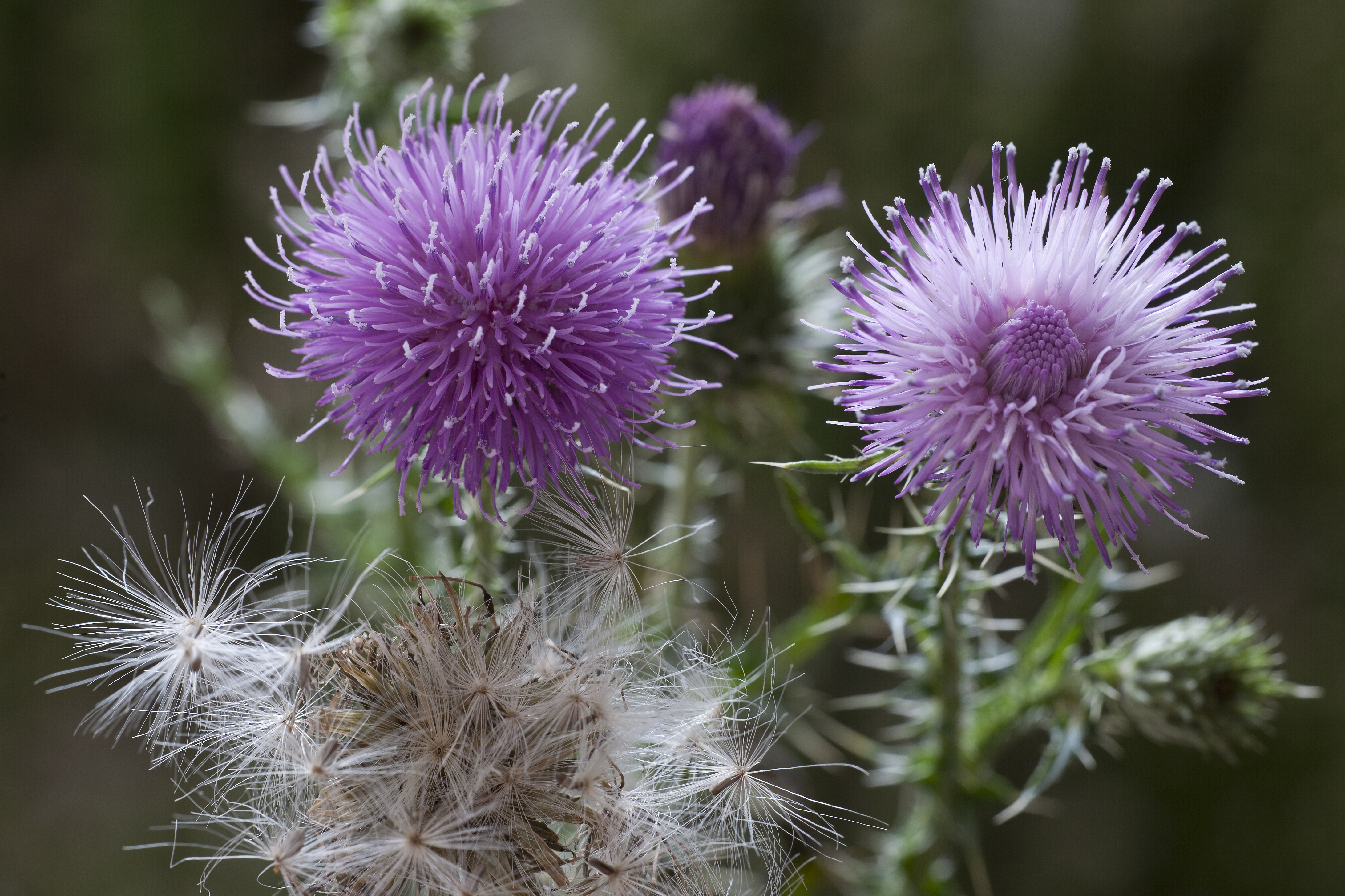 Carduus acanthoides